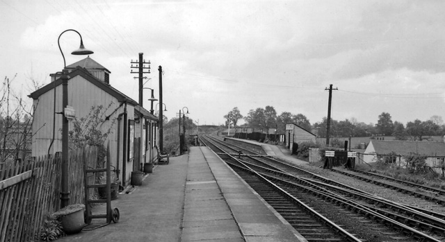 Broughton Astley Station. View NE, towards Leicester; ex-Midland Leicester - Rugby line. The line had formerly been a useful route for coal traffic to London (Willesden), but was closed, with this station, completely on 1/1/62. One of the original stations opened in 1842 by the Midland Counties Railway.